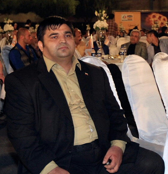 Hossein Rezazadeh